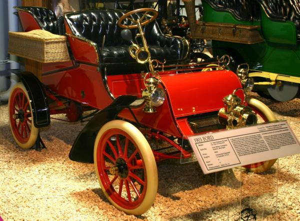 1903 Ford Model A photographed by DougW of at the National Automobile Museum in Reno, NV.